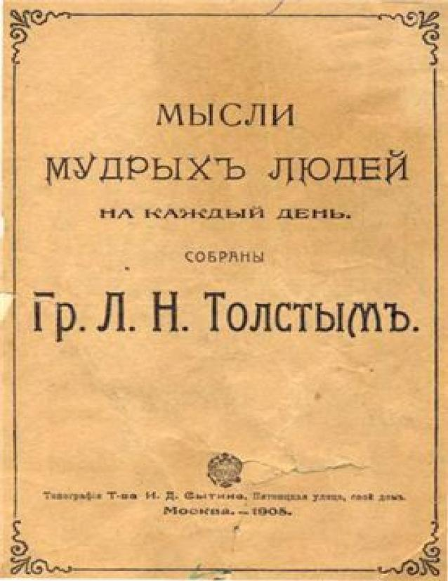 Leo Tolstoy's book The Thoughts of Wise People for Every Day. Title page of the Russian edition.